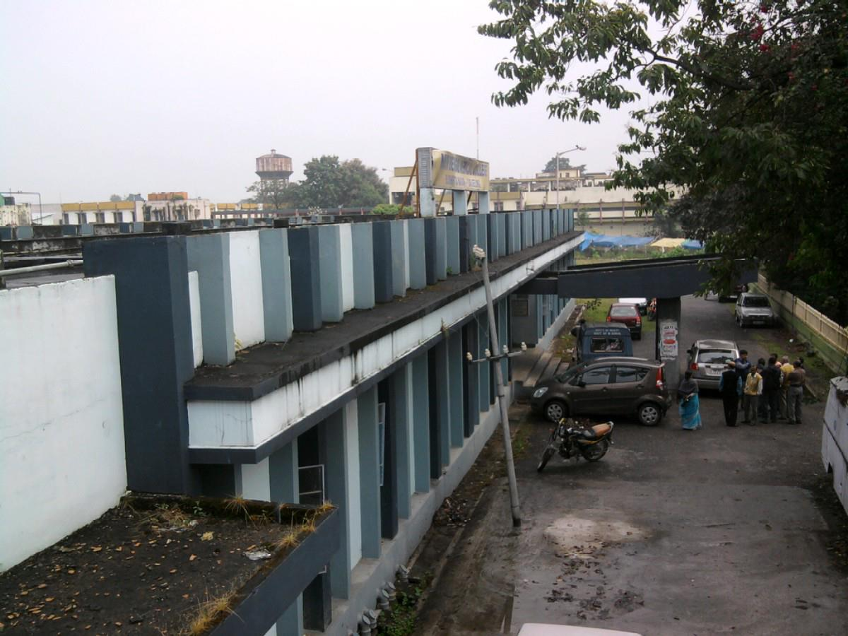 taken from the corridor of 1st floor